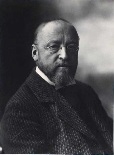 Danish pharmacist, businessman, and politician, MP Boje Peter Lorenz Alfred Benzon (1855-1932)